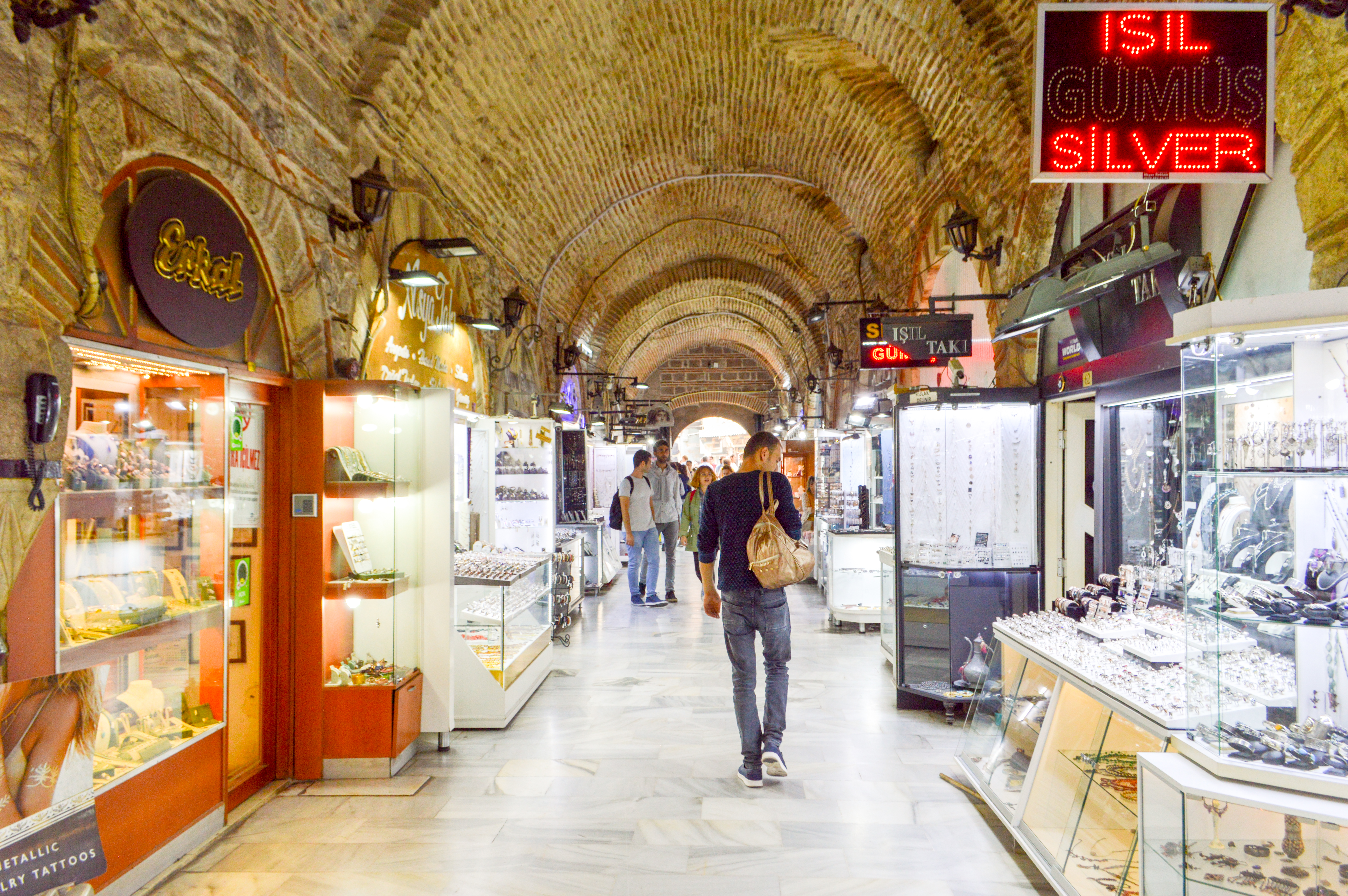 Kemeraltı market in İzmir, Turkey.